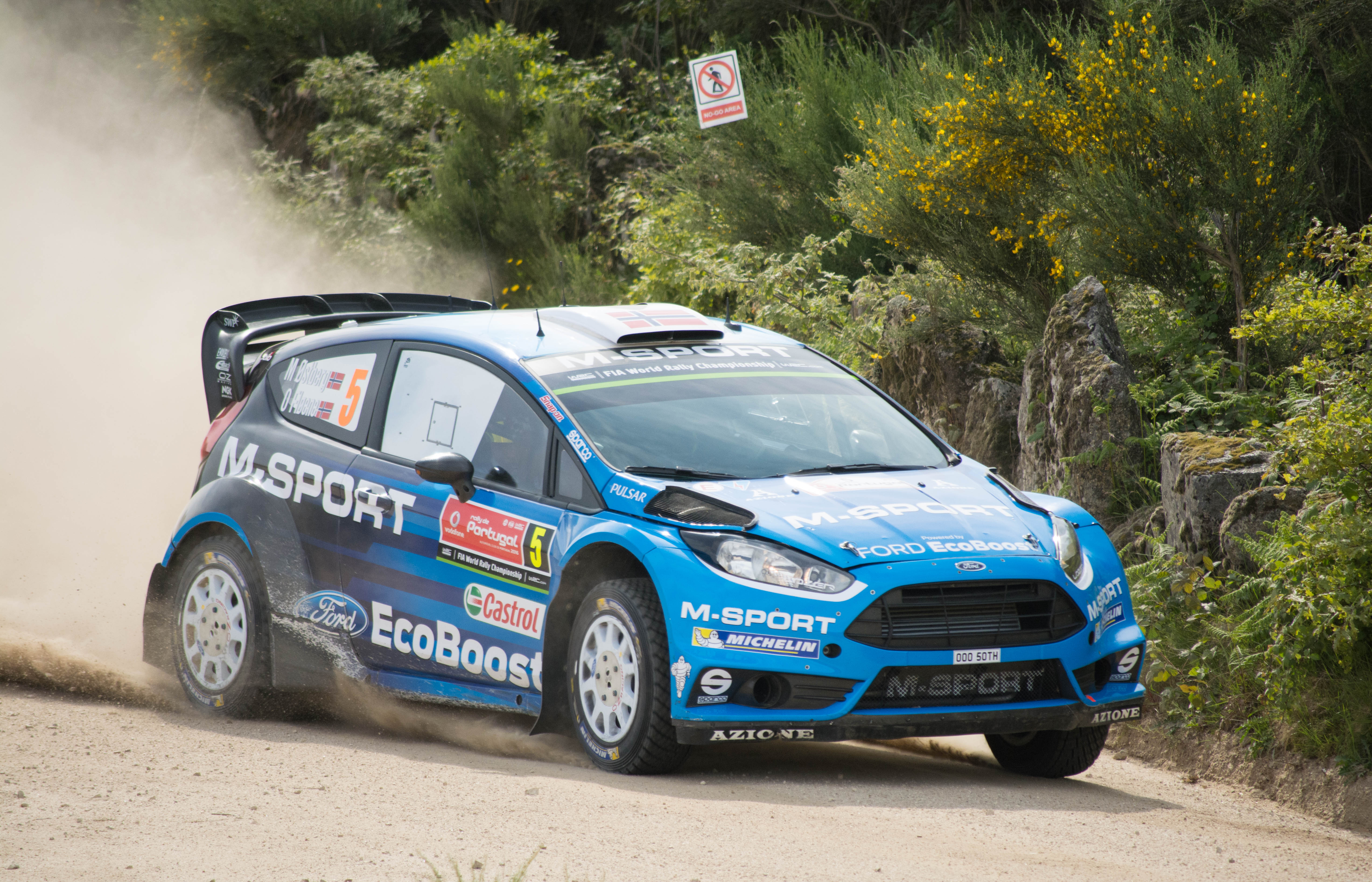 Rally of Portugal 2016. Section of "Baião", on the first pass